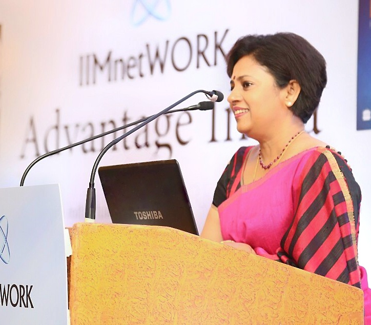 Pic of her